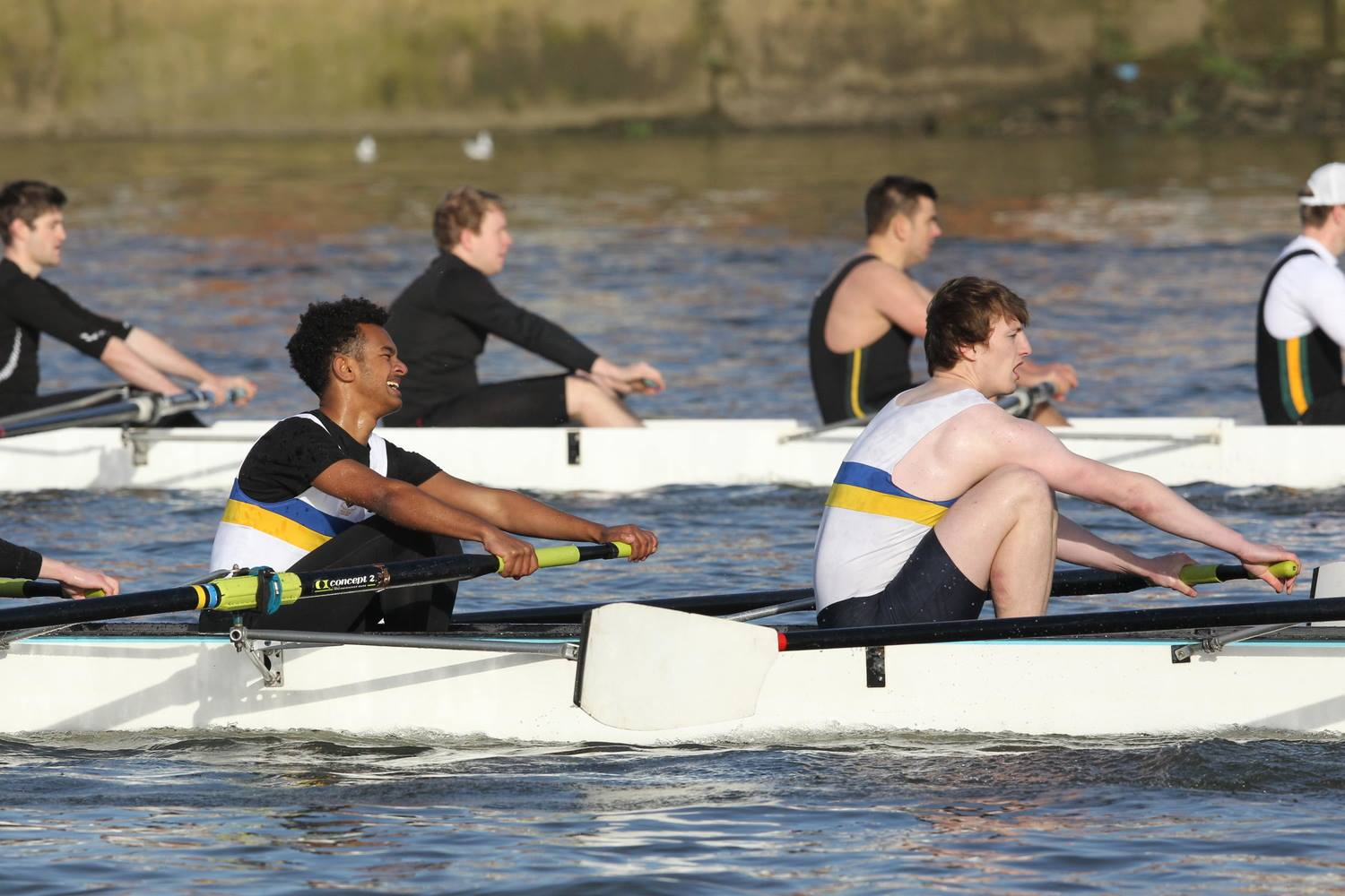 Jenson and Rob on the left and right respectively at Quinten Head 2016